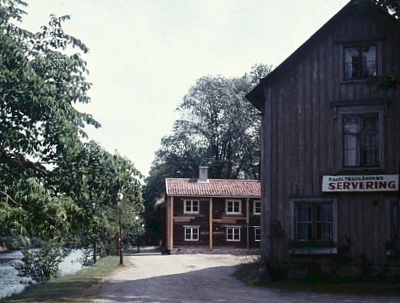 Örebro canal, Sweden